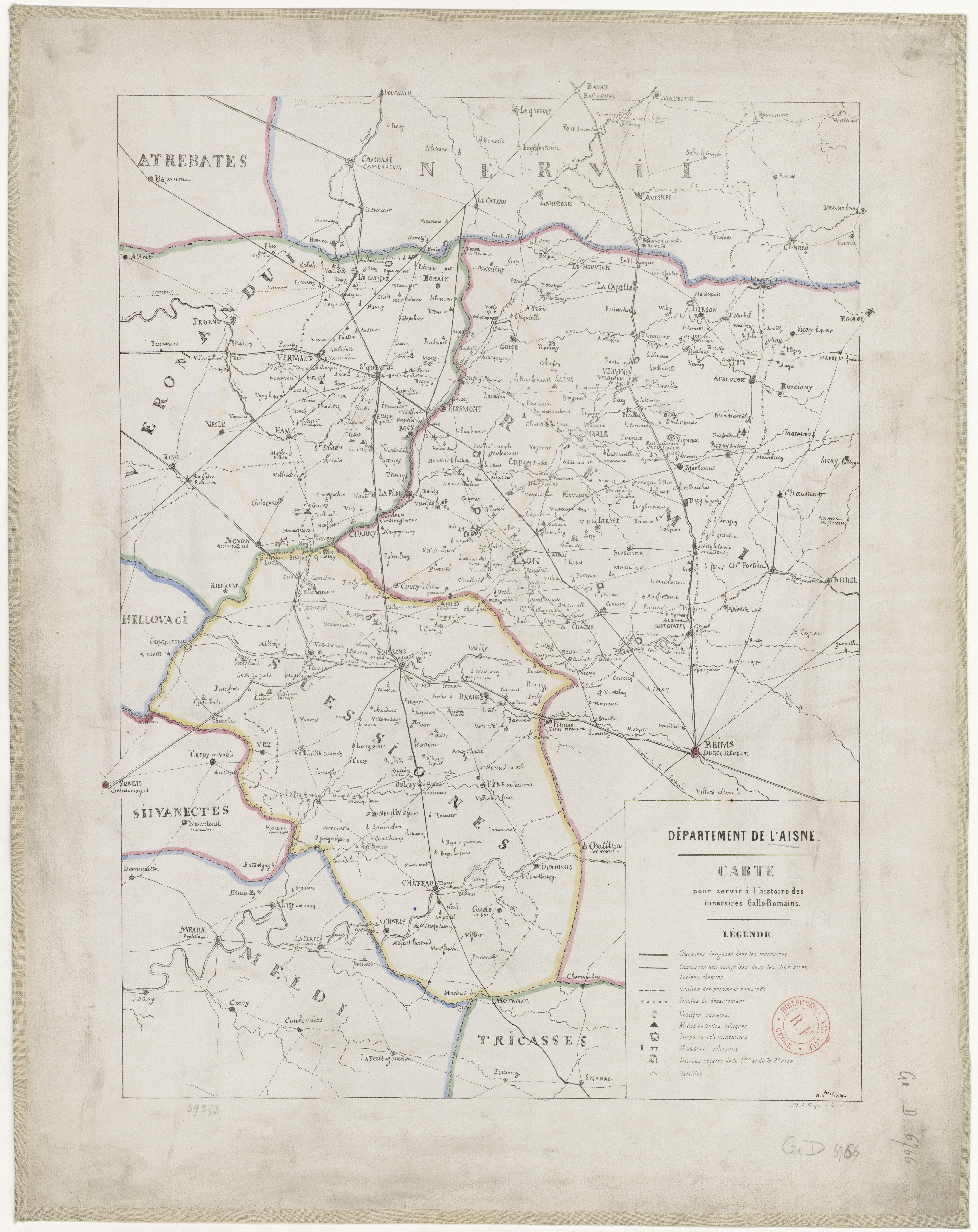 Les Frontières du territoire des Suessiones